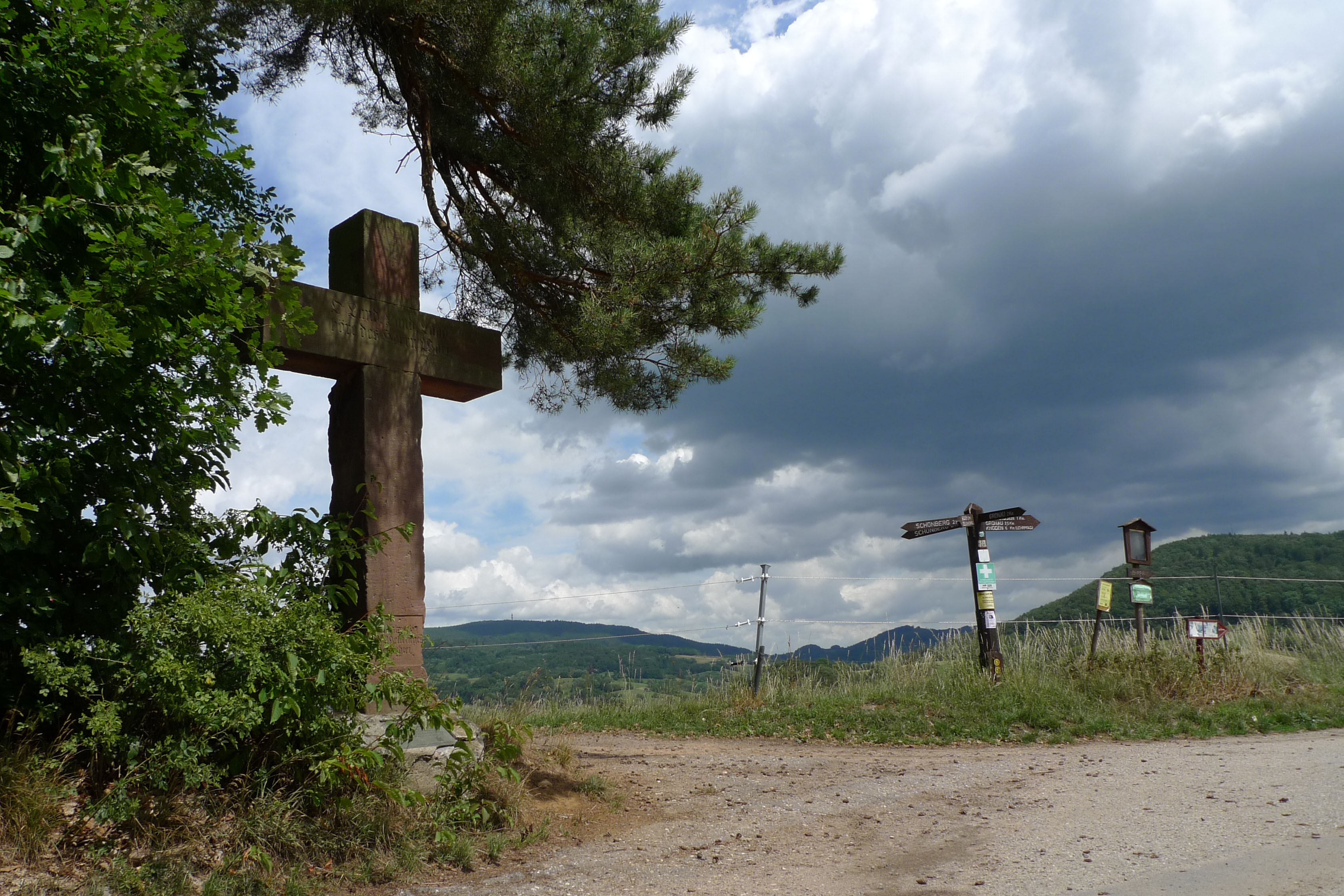 Schönberger Kreuz near Bensheim-Schönberg. Raised in 1915 by order of Duchess Marie zu Erbach-Schönberg